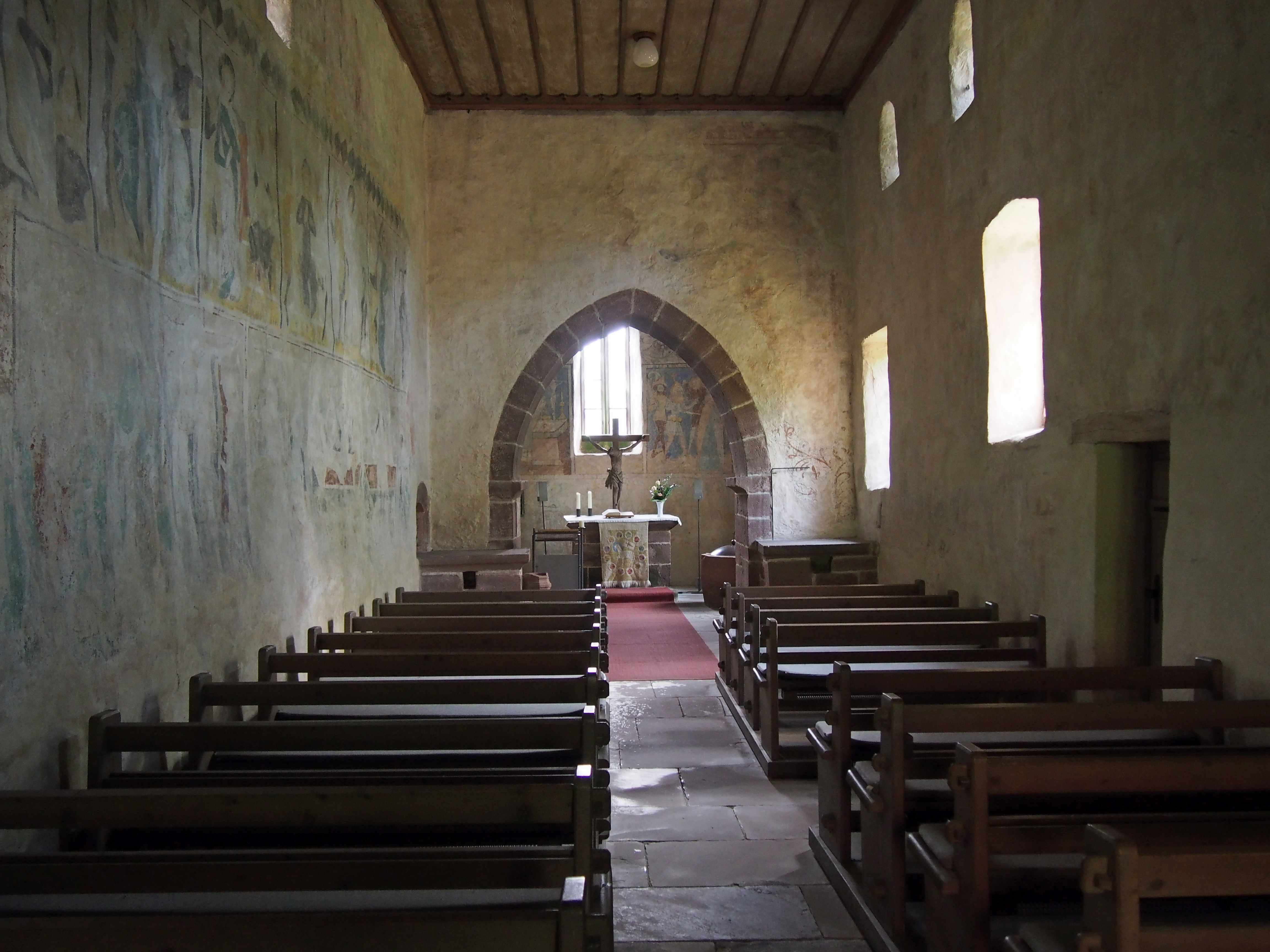 St. Candidus Church in Zavelstein, German Federal State Baden-Württemberg.